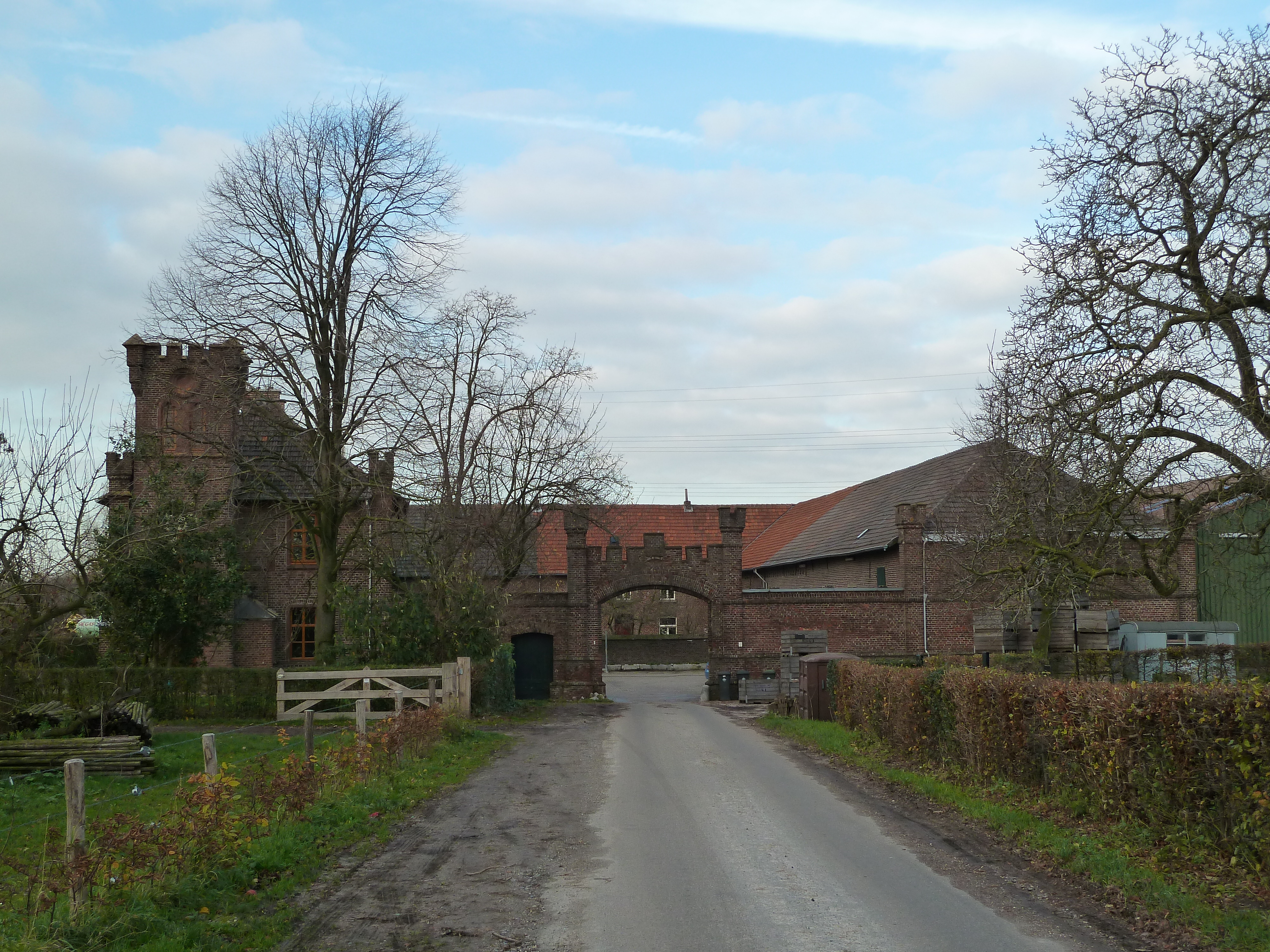 Wijnstraat 21, Simpelveld, Limburg, the Netherlands